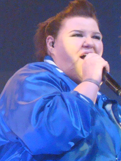 Ashley Fink as Lauren Zizes, performing "Empire State of Mind" on the Glee Live! In Concert! tour.